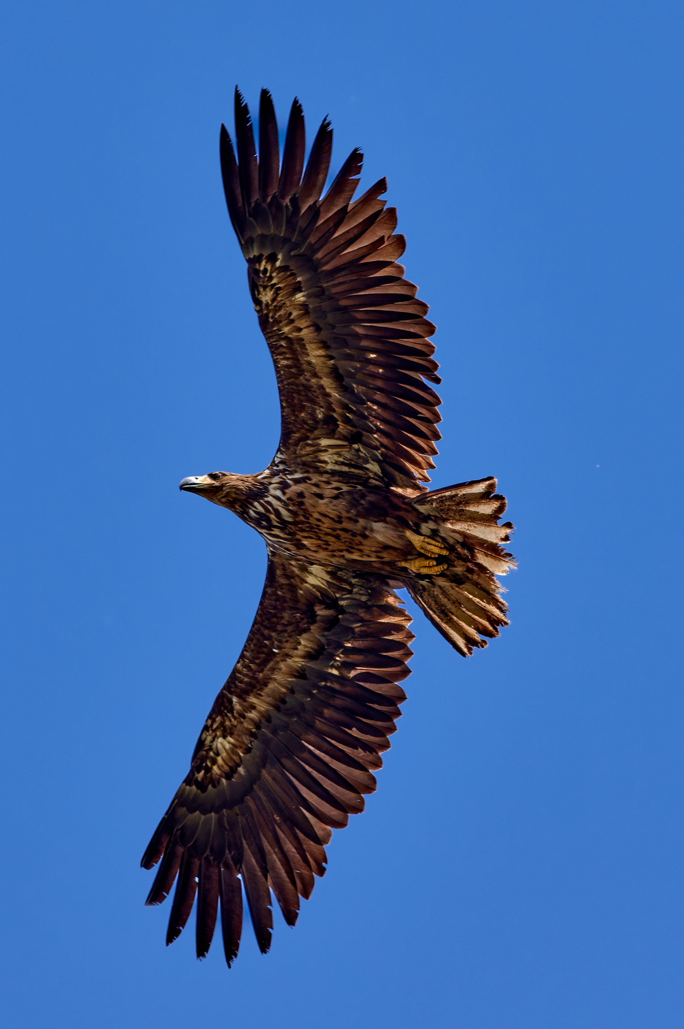 Juvenile White-tailed eagle (Haliaeetus albicilla) in flight, National Park Lower Oder Valley, Germany